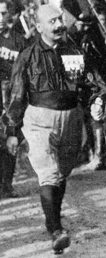 Cesare Maria de Vecchi in 1935